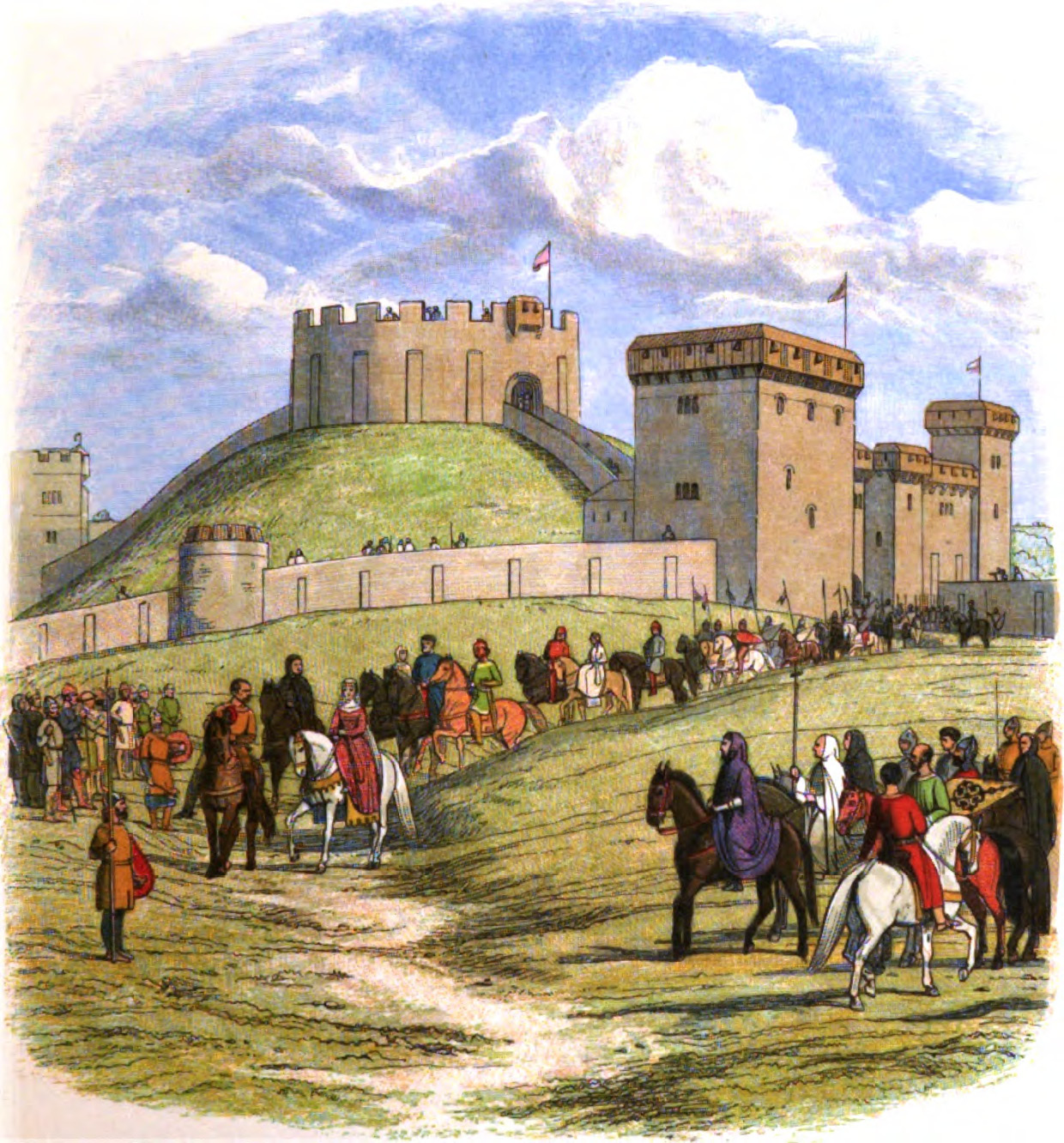 Empress Matilda is forced to leave Arundel.